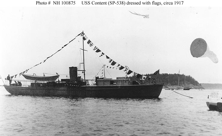 United States Navy patrol vessel USS Content (SP-538) anchored in a New England harbor in mid-1917